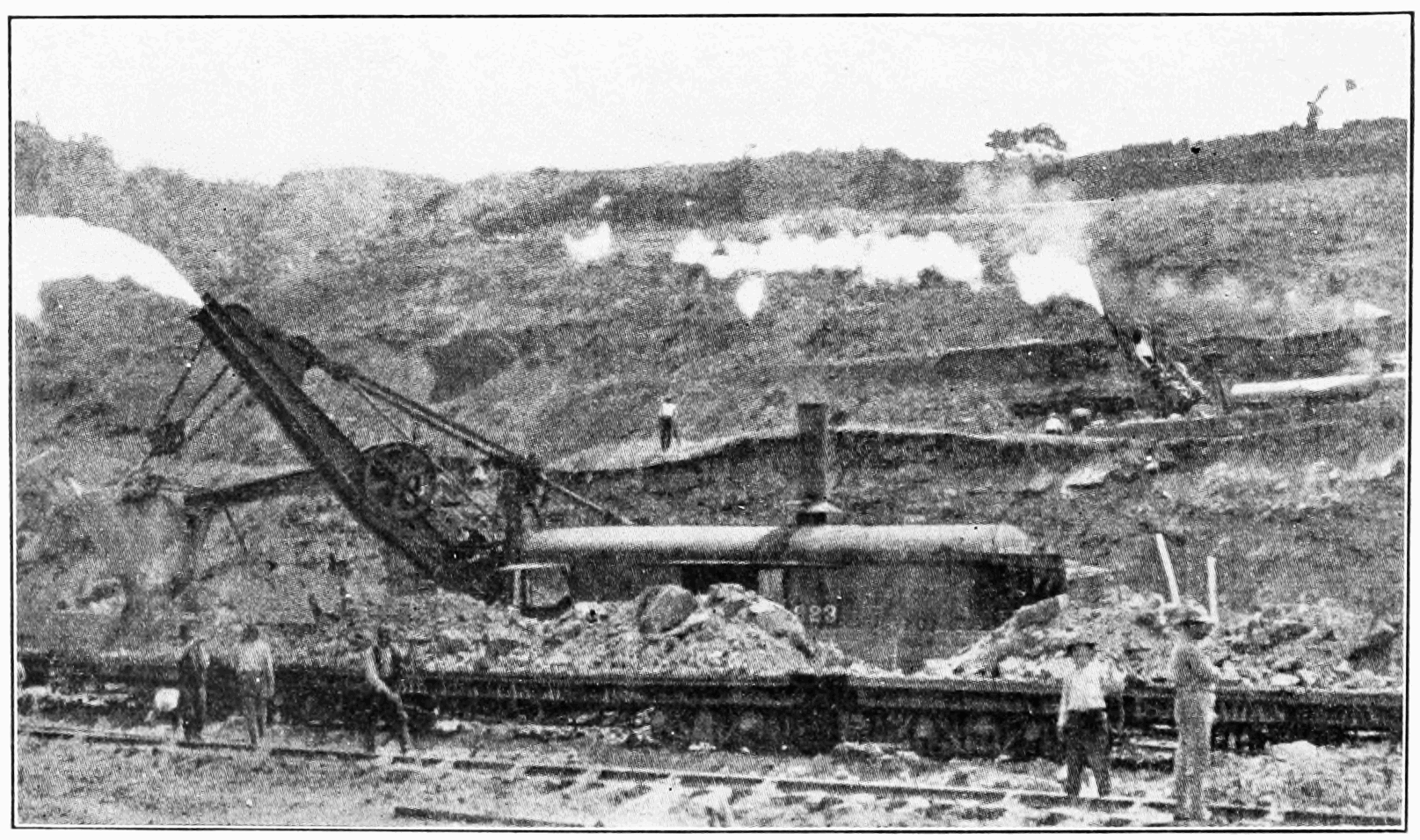 Steam shovels loading lidgerwood flats in Culebra cut